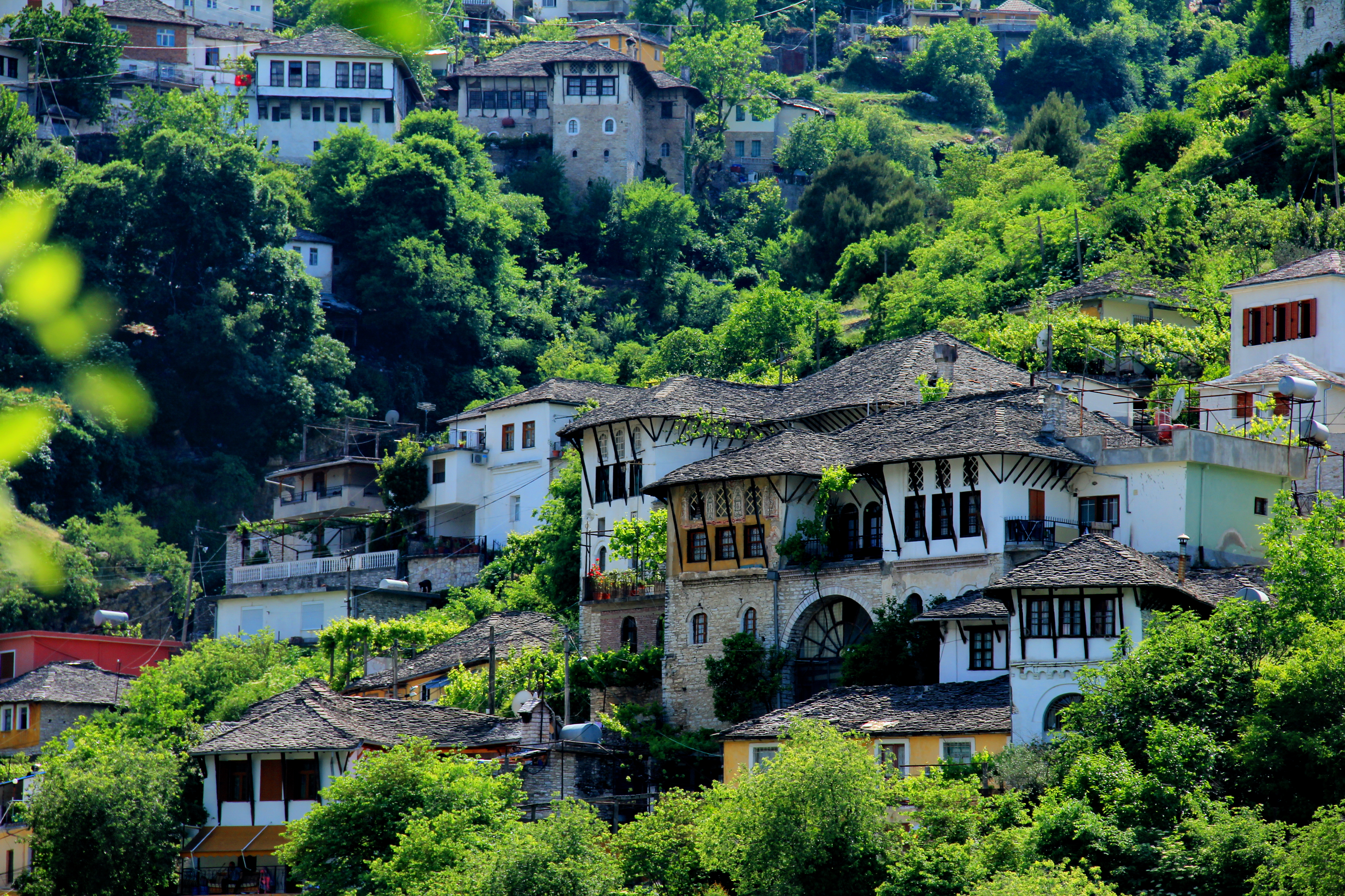 View from Castle of Gjirokastra